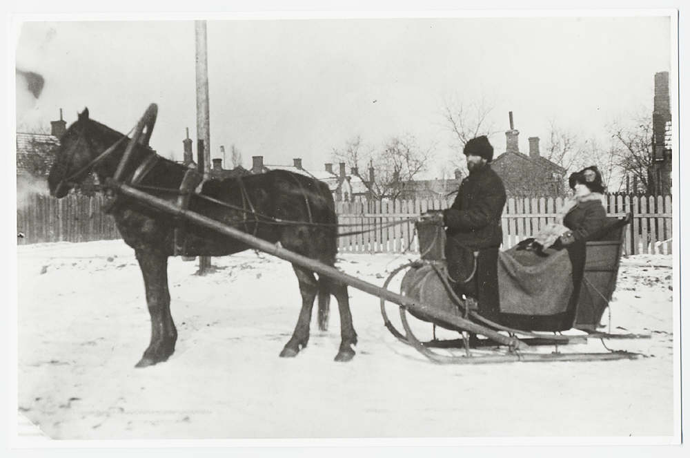 Gwladys Cartwright in sledge, Hughesovka, c.1914